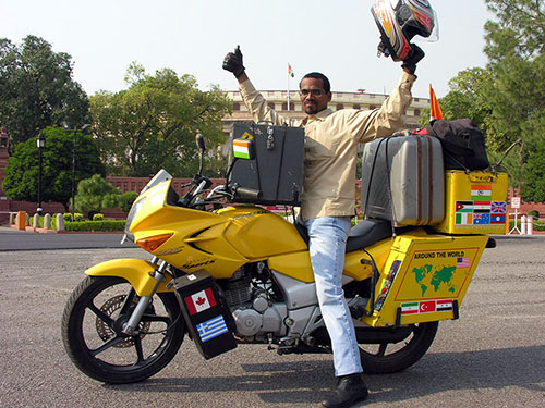 Bharadwaj is the first Indian to complete a world tour on motorcycle.